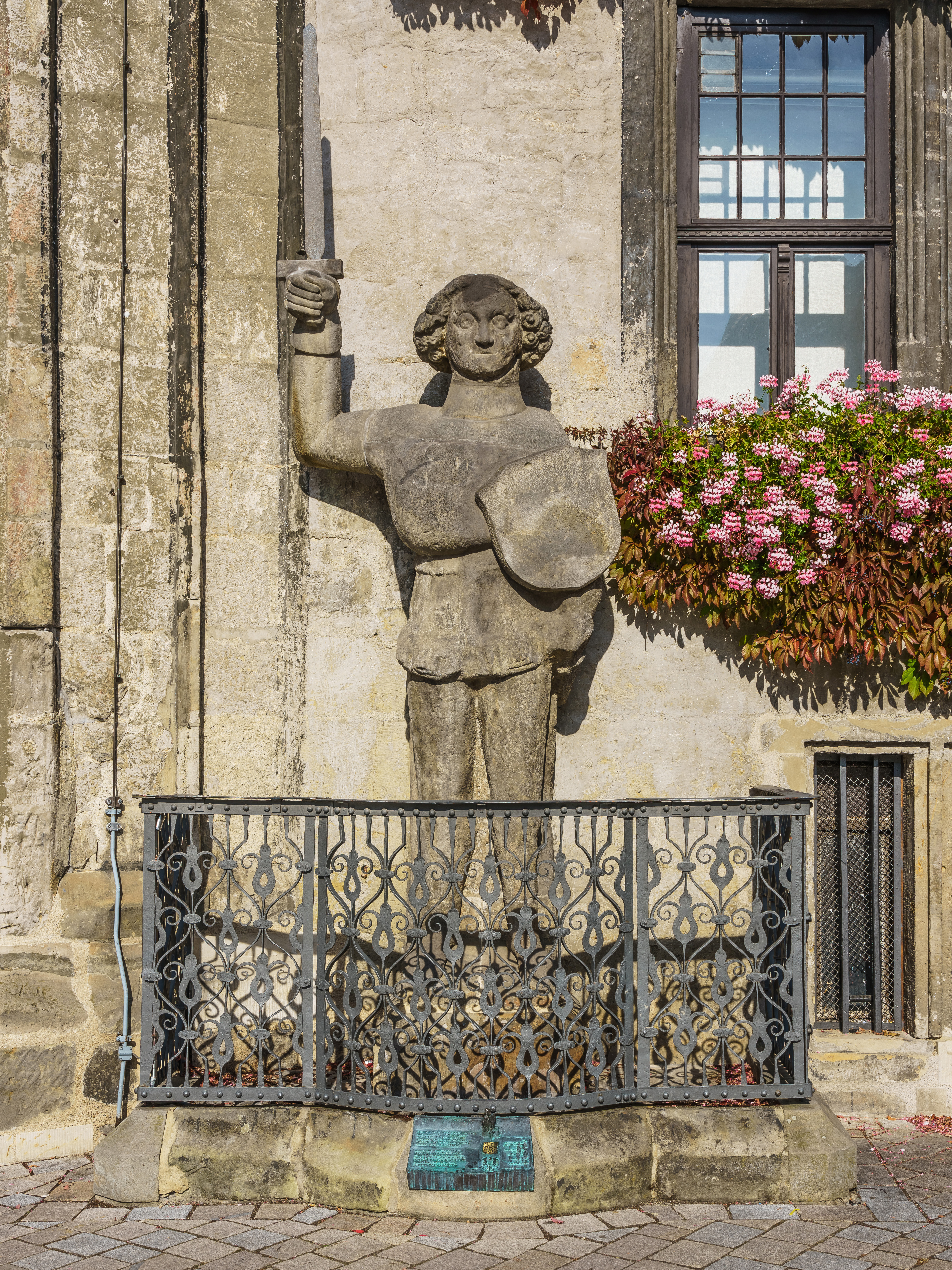 Town Hall in Quedlinburg, Germany